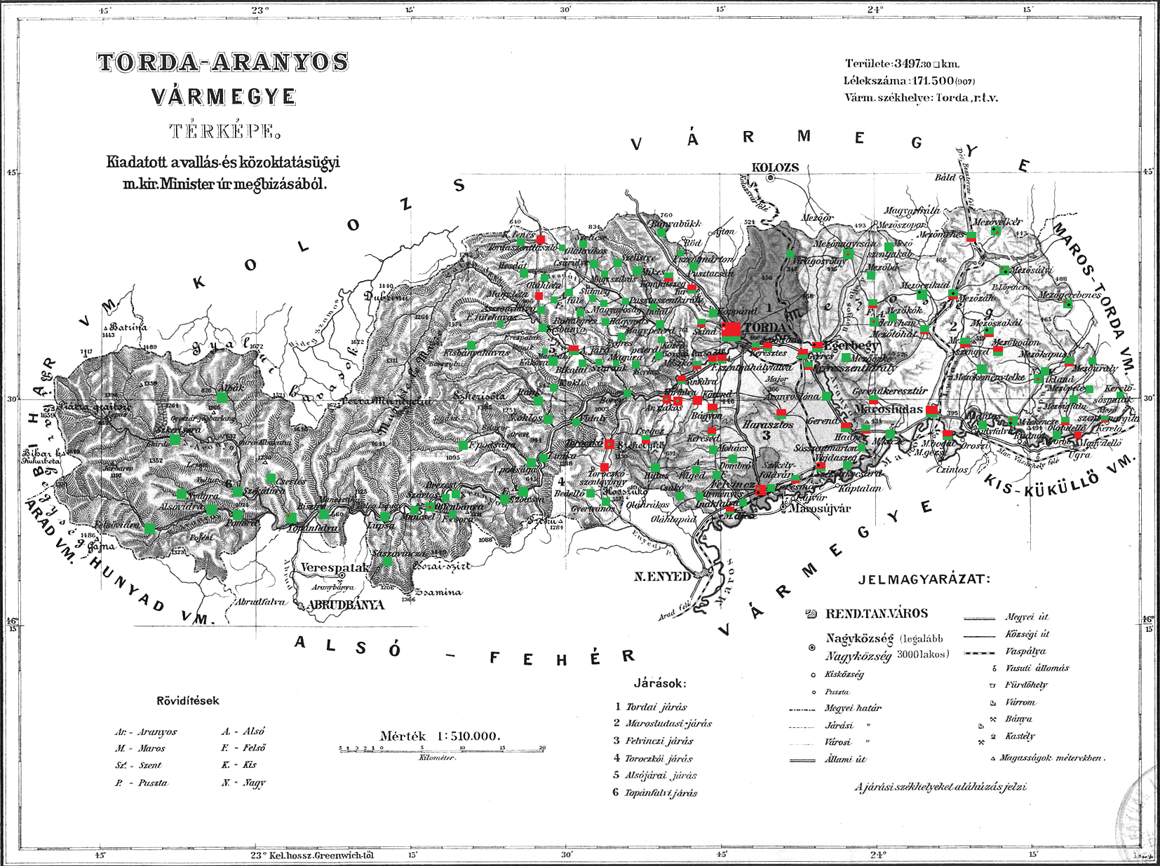 Ethnic map of the county (with data of the 1910 census). Key: dark green - Romanians; red - Hungarians; pink - Germans; black - Roma. Coloured dots in plain rectangles imply the presence of smaller minority populations (generally more than 100 people or 10%). Multicoloured rectangles imply cities and villages with multi-ethnic populations with the order of the stripes following the ethnic composition of the settlement.